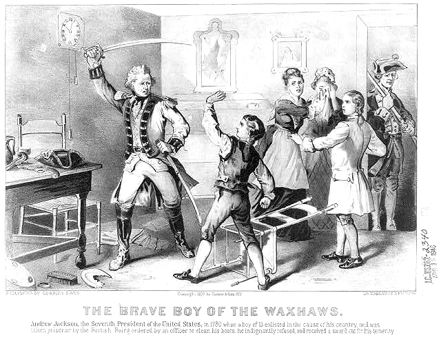 "The Brave Boy of the Waxhaws". Depicts incident in the childhood of Andrew Jackson, showing the lad standing up to British soldier. As depicted a century later in an 1876 lithograph.